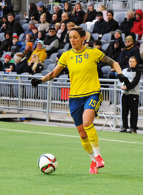 Swedish footballer Therese Sjögran